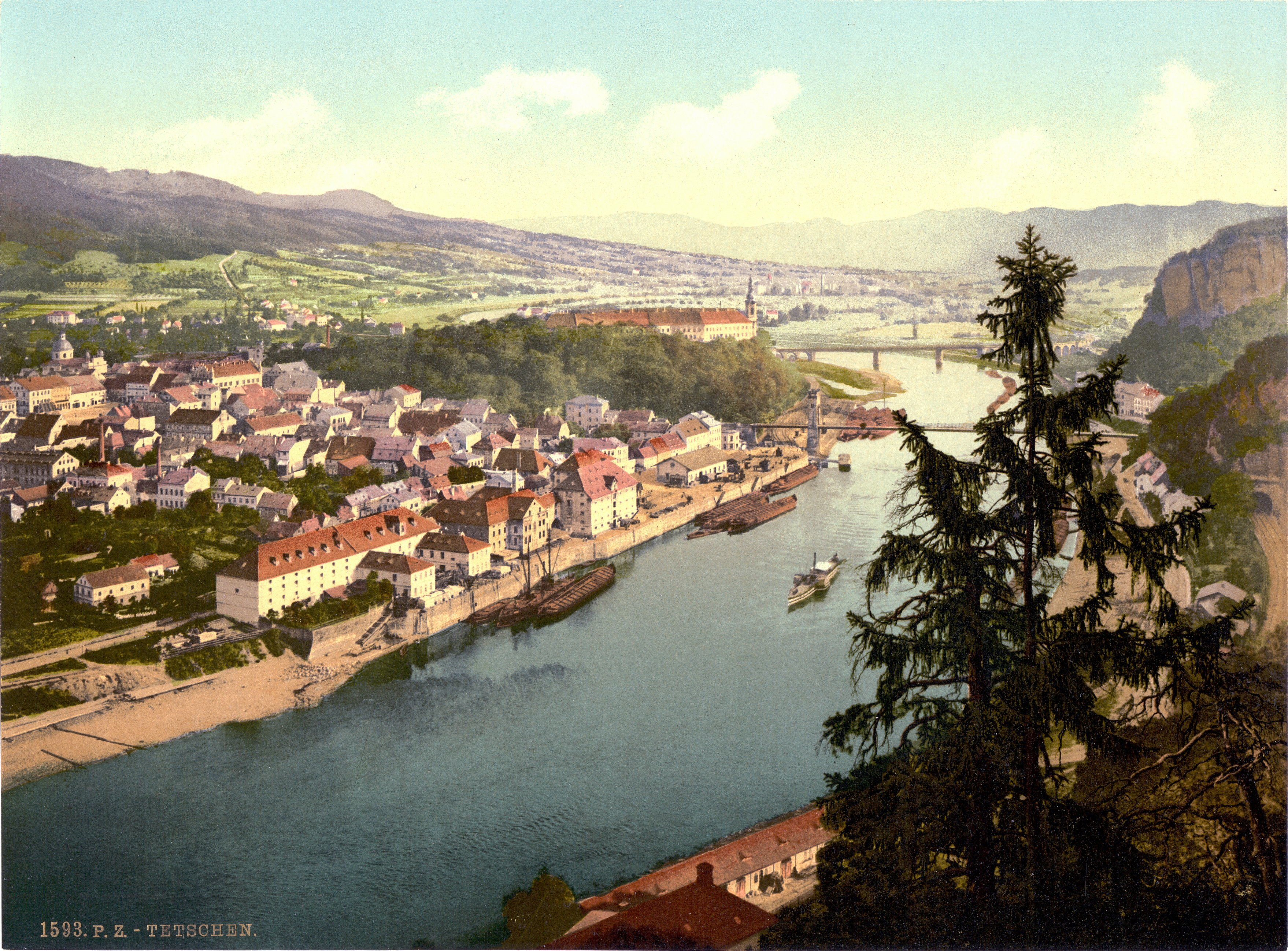 Tetschen, Bohemian Switzerland, Bohemia, Austro-Hungary (now Děčín in the north of the Czech Republic. Print no. "1593"